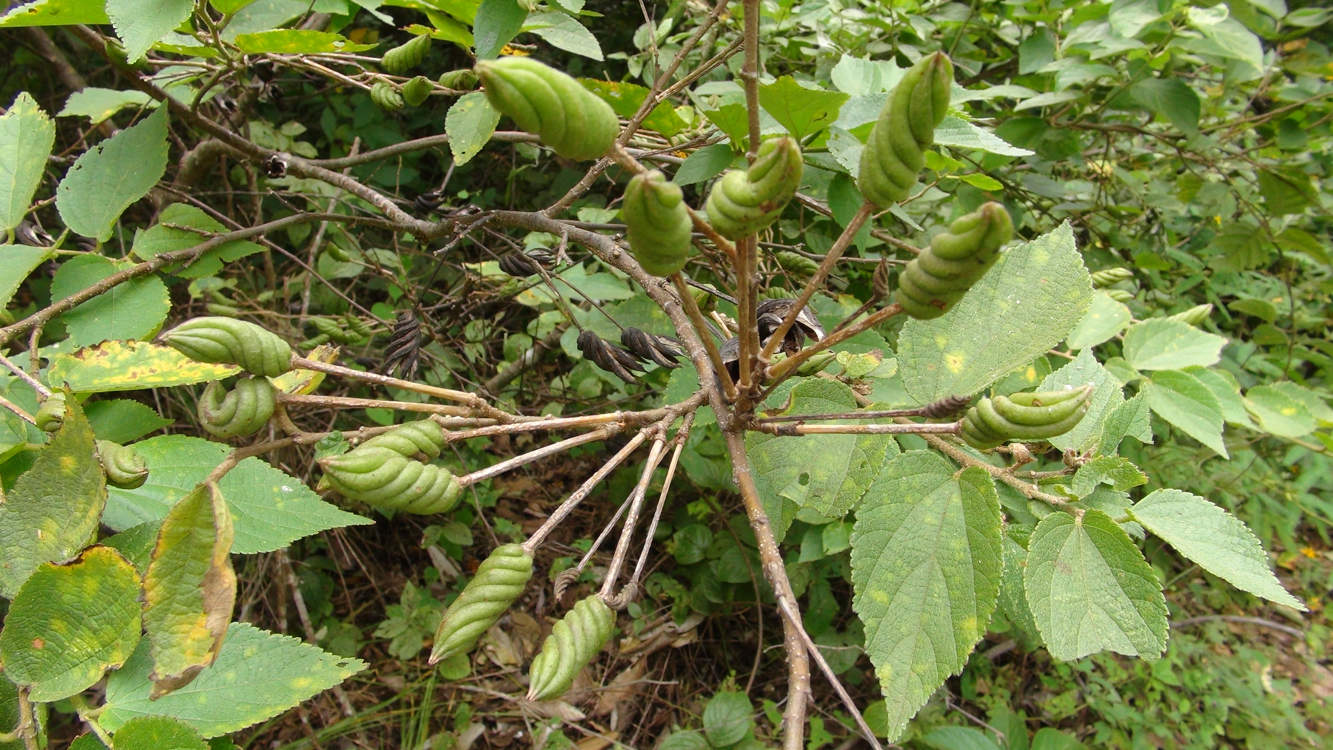 Helicteres sp., shrub with screwlike curved fruits. Costa Rica, prov. Guanacaste, Hacienda Guachipelin near Rincon de la Vieja.